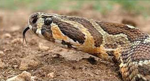 palestine viper